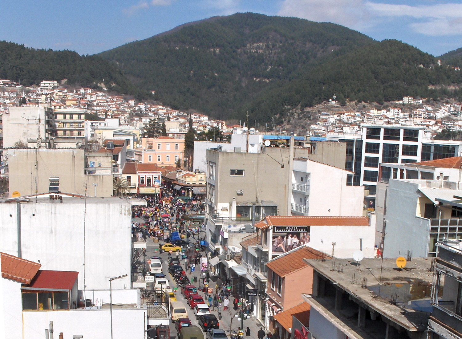 Xanthi. Picture taken by (WT-shared) Handrian. Image copyright 2006 by (WT-shared) Handrian, dual-licensed under the CC-SA 1.0 (or later) and the GFDL.